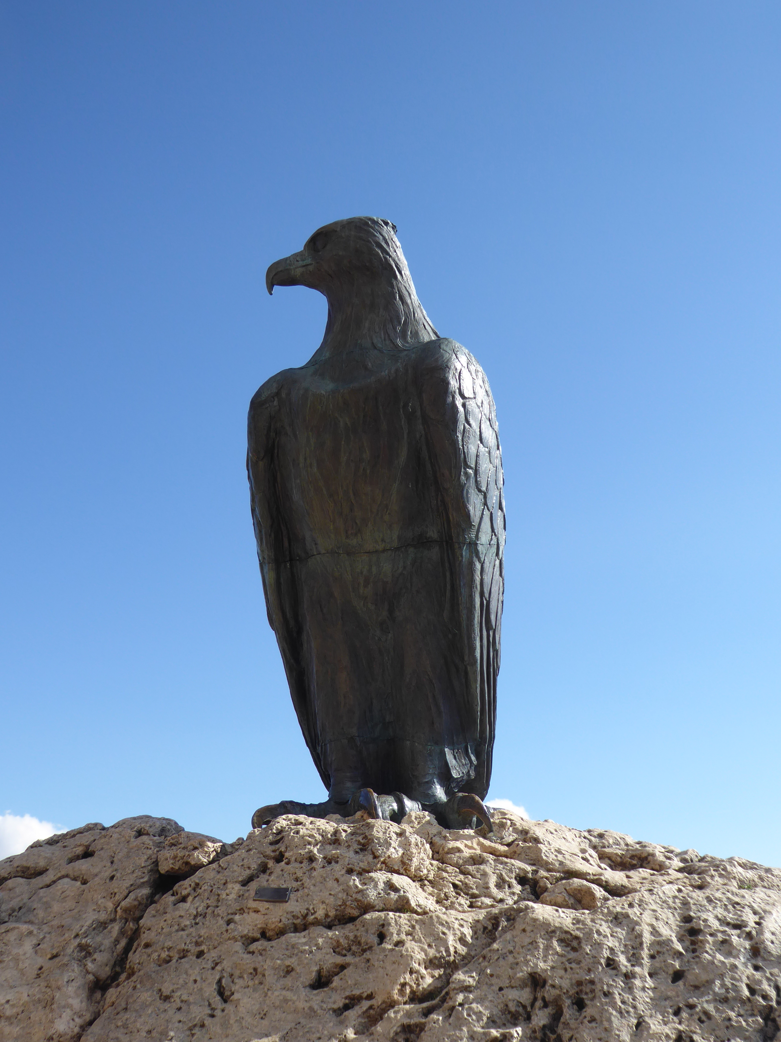 The monument to Theodor Christomannos on the Catinaccio